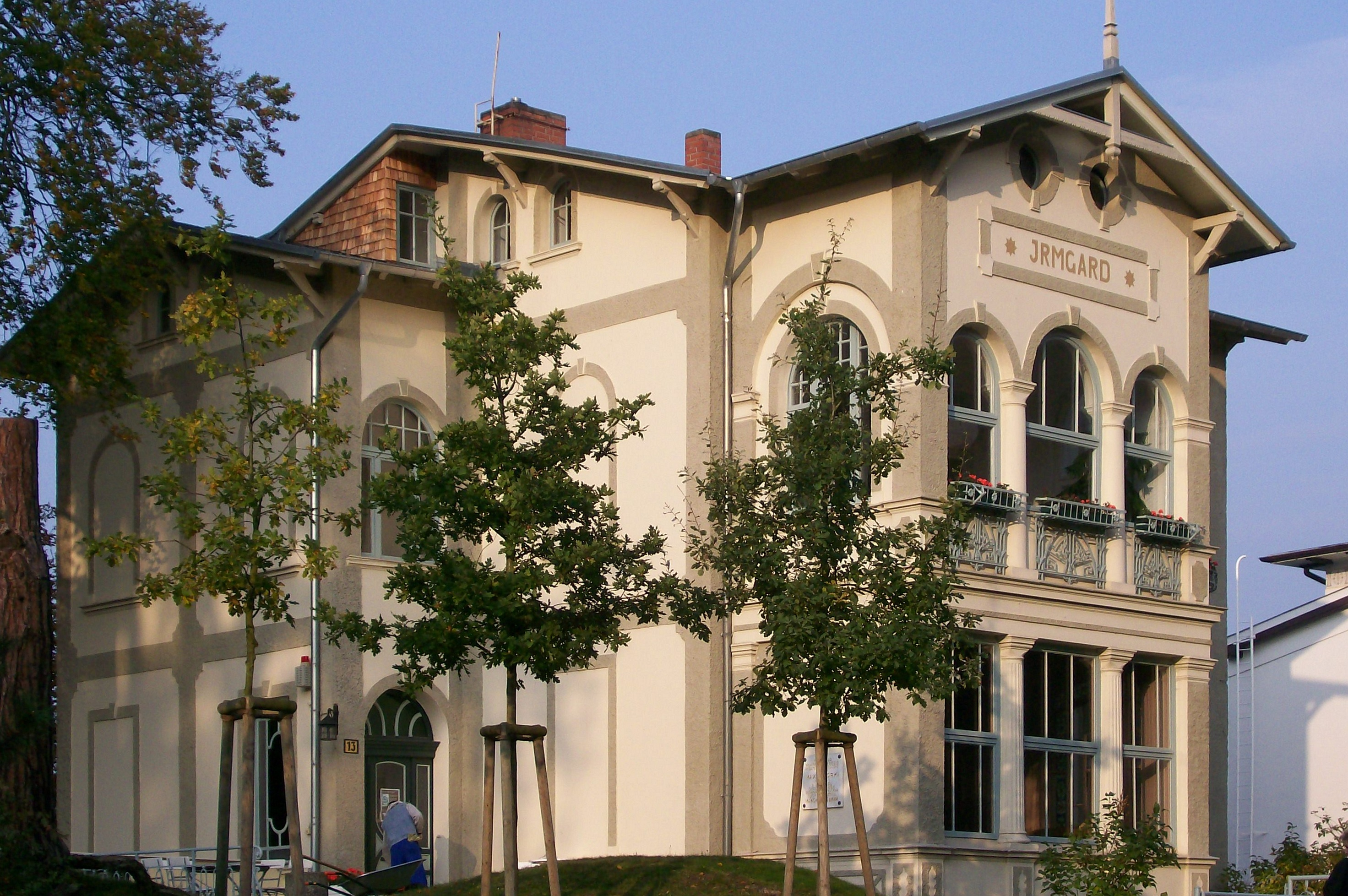 Die Villa Irmgard ist ein Heimatmuseum in Heringsdorf und eine Gedenkstätte für Maxim Gorki auf der Insel Usedom. Die Bäderarchitektur-Villa wurde 1906 gebaut. Maxim Gorki lebte von Mai bis September 1922 in der Villa. Villa Irmgard is a museum of local history in Heringsdorf on the island Usedom in Germany. It is also a memorial museum for Maxim Gorky who lived in the villa from May 1922 to September 1922. The villa was built in 1906.